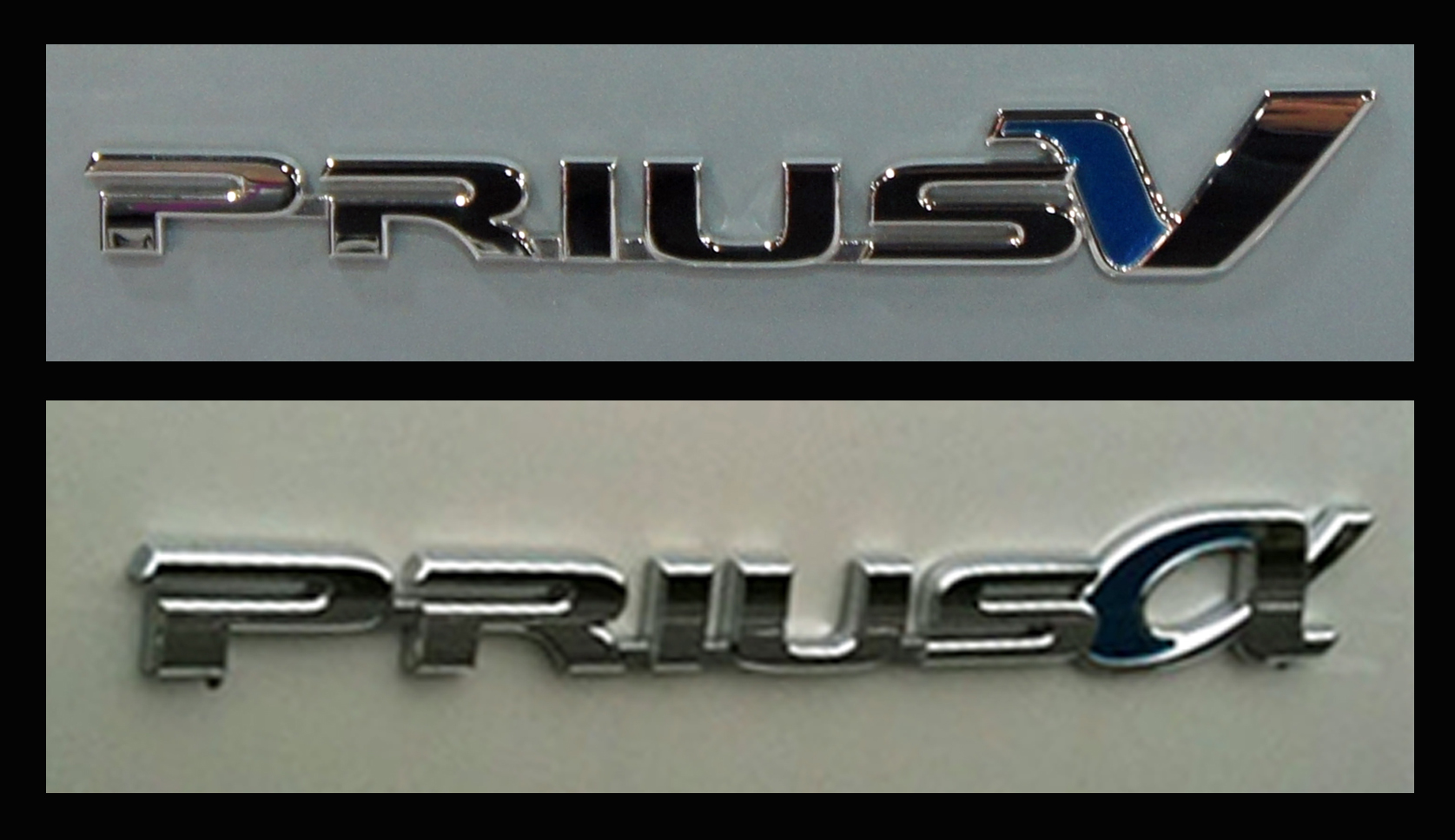 Badges for the Prius v (top) and the Prius α (bottom). The Prius v is sold in the North American market and the Prius Alpha in Japan.